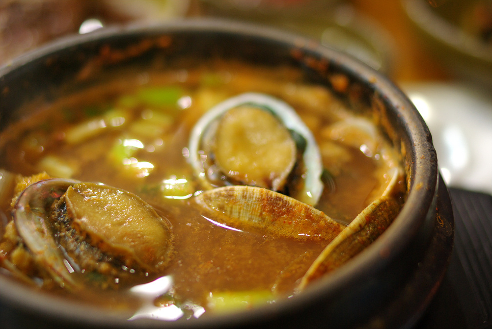 Obunjagi ttukbaegi made with Variously coloured abalone (Sulculus diversicolor supertexta), which is a local specialty of Jeju Island, South Korea.